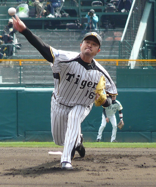 HT-Yuya-Ando20120313